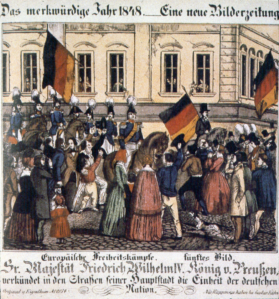 Frederick William IV, riding through the streets of Berlin, proclaims the unity of the German nation in 1848. Coloured drawing (1848) from the Neuruppiner Bilderbogen (Gustav Kühn, no. 2034).